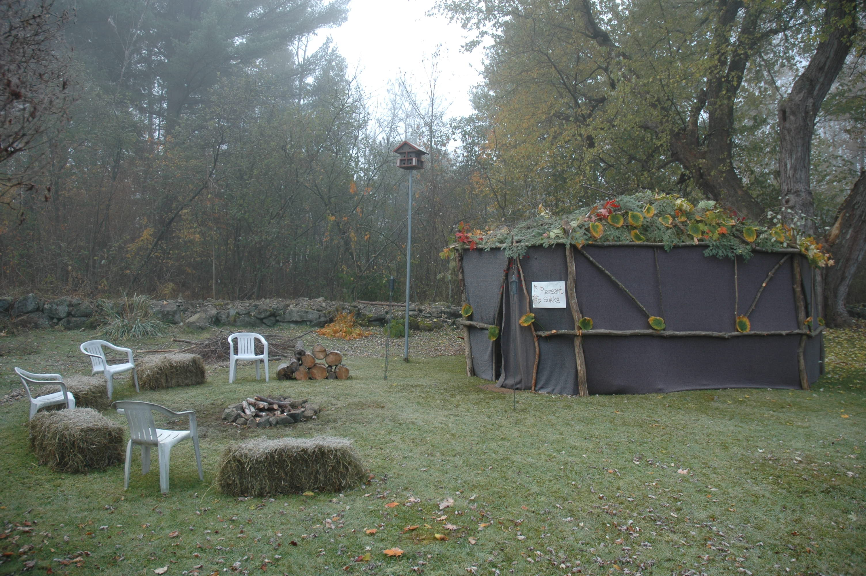 Sukka In New Hampshire